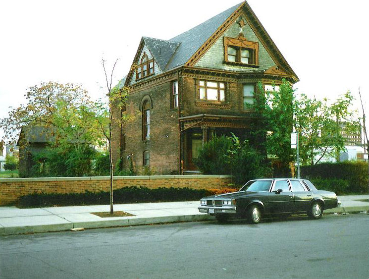 1897 wooden house at 123 Parsons — Detroit Michigan 85310